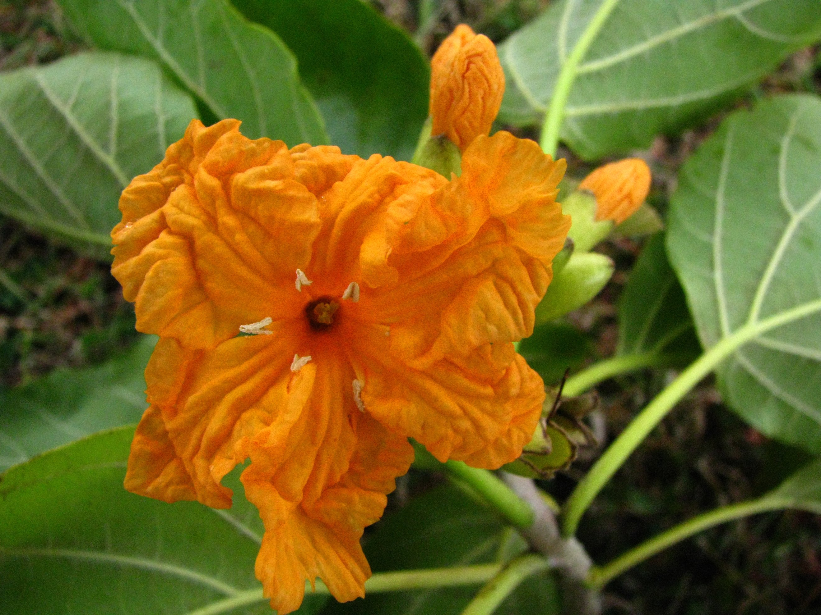 Cultivated specimen of the indigenous Kou (Cordia subcordata, Boraginaceae) on the island of Oʻahu, Hawaii.